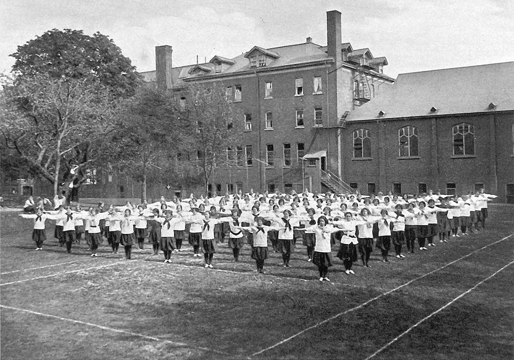 Gymnastics display at Havergal College (1908), Jarvis Street Campus, Toronto, Canada.